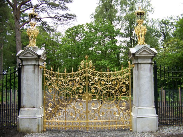 The Golden Gates at Benmore Gardens